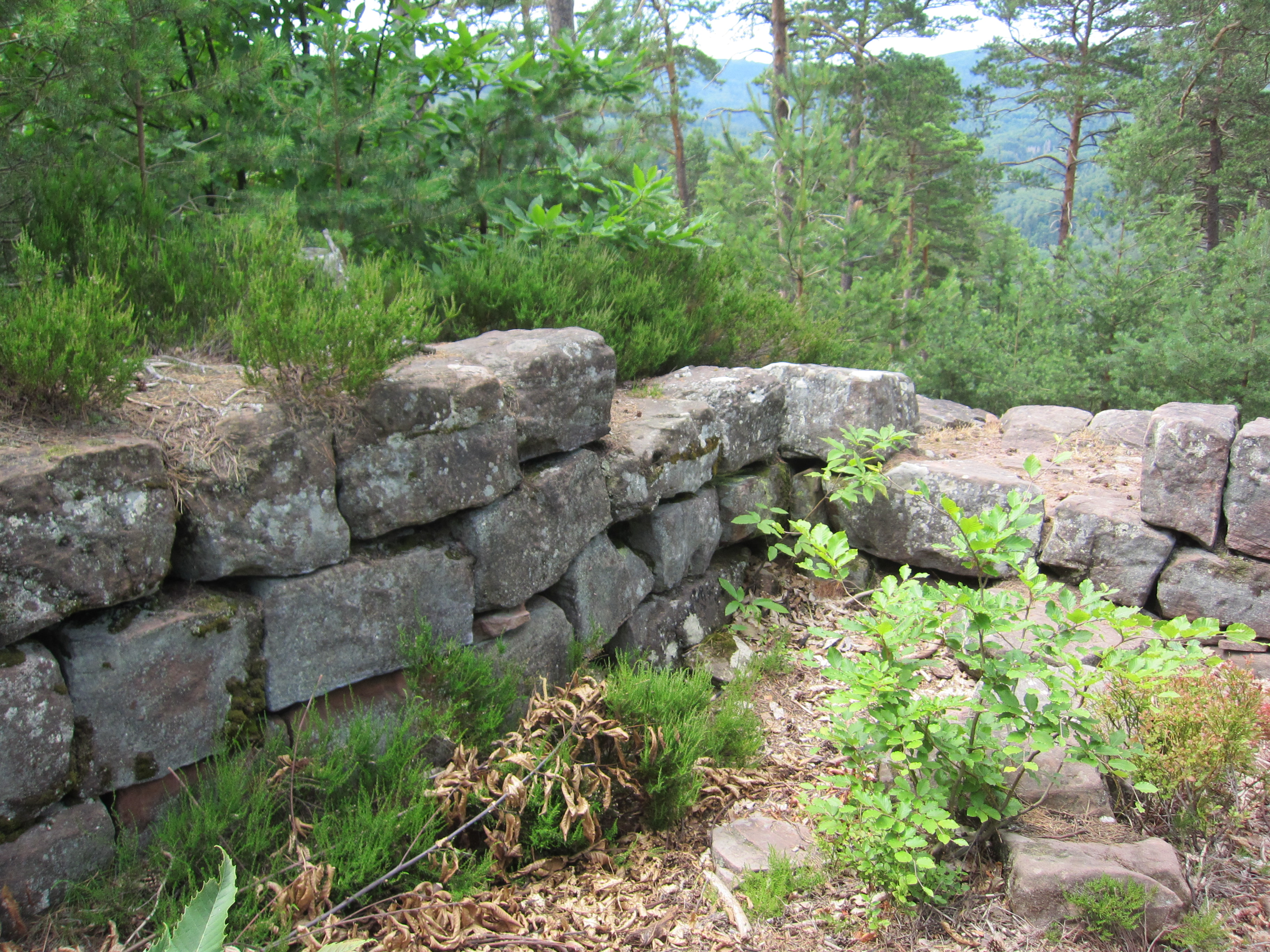 the castle's southwestern corner